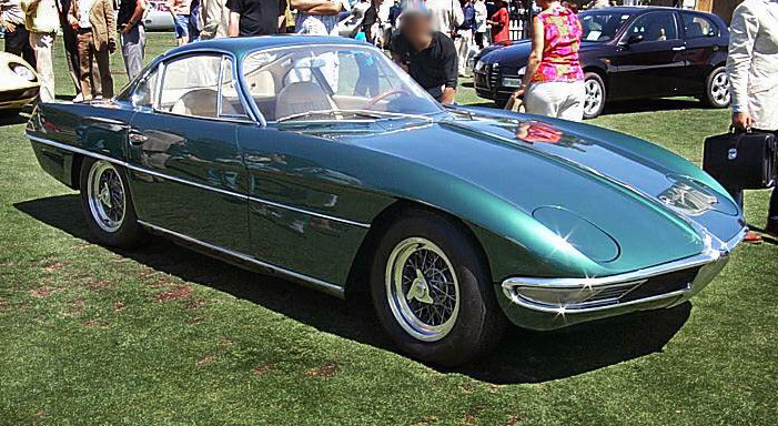 The 1963 Lamborghini 350 GTV at the Concorso Italiano in 2001